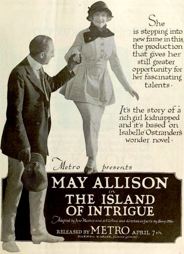 Ad for the American film The Island of Intrigue (1919) with May Allison and an unidentified actor, on page 155 of the April 12, 1919 Moving Picture World.